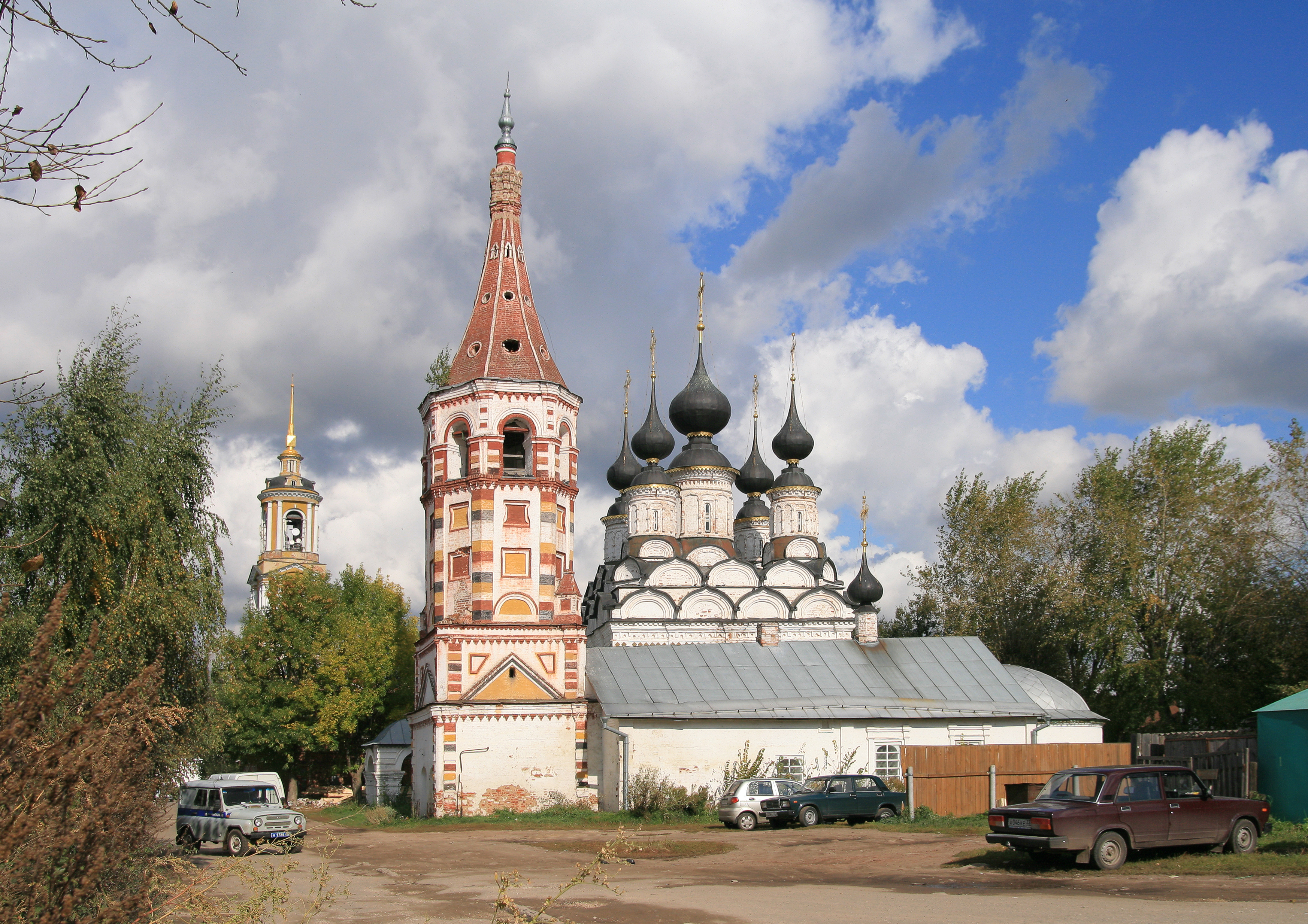 Wintry Saint Antipas (1745) and Summary Saint Lazarus (1667) Churches, Suzdal